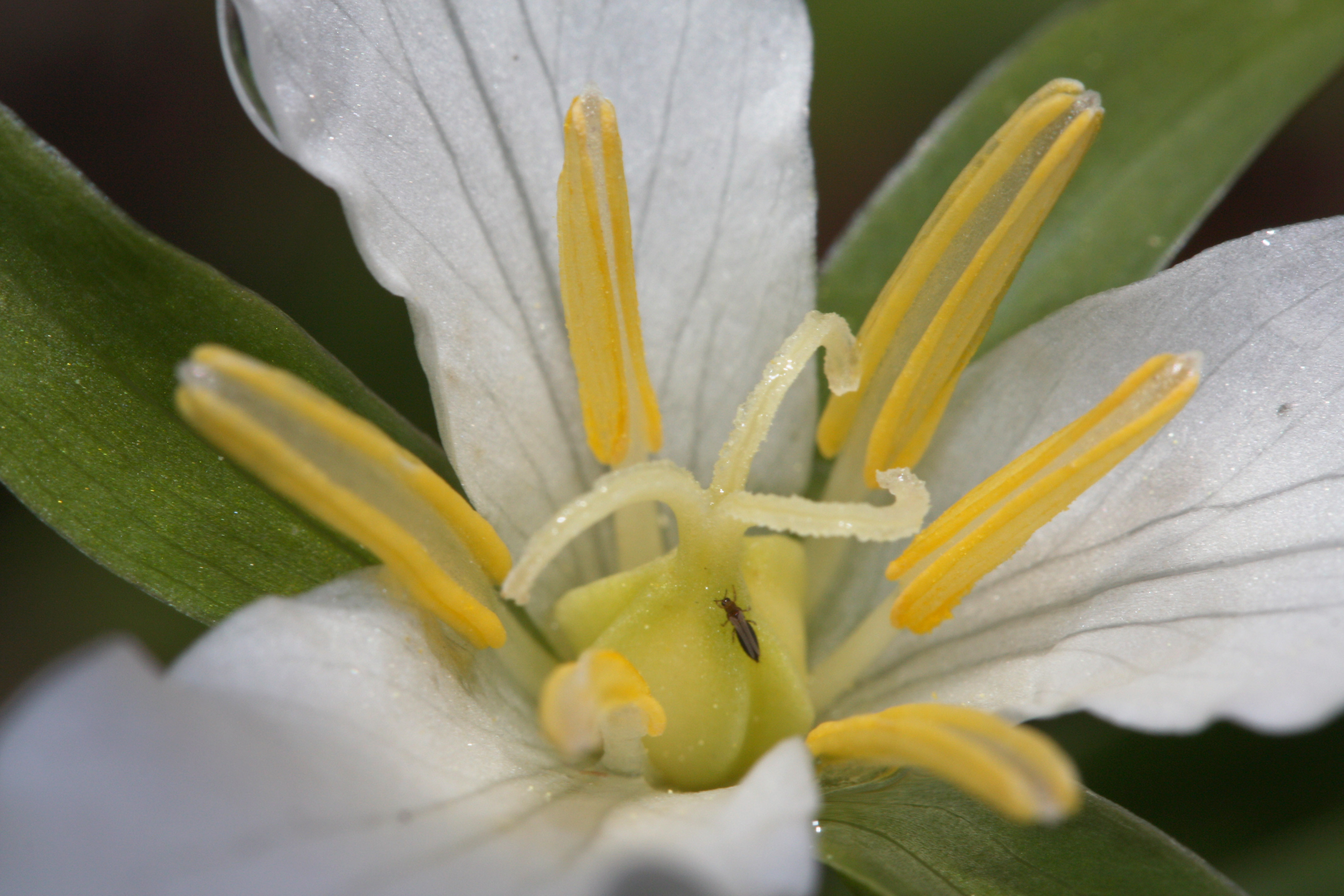 Pacific Trillium, Wakerobin